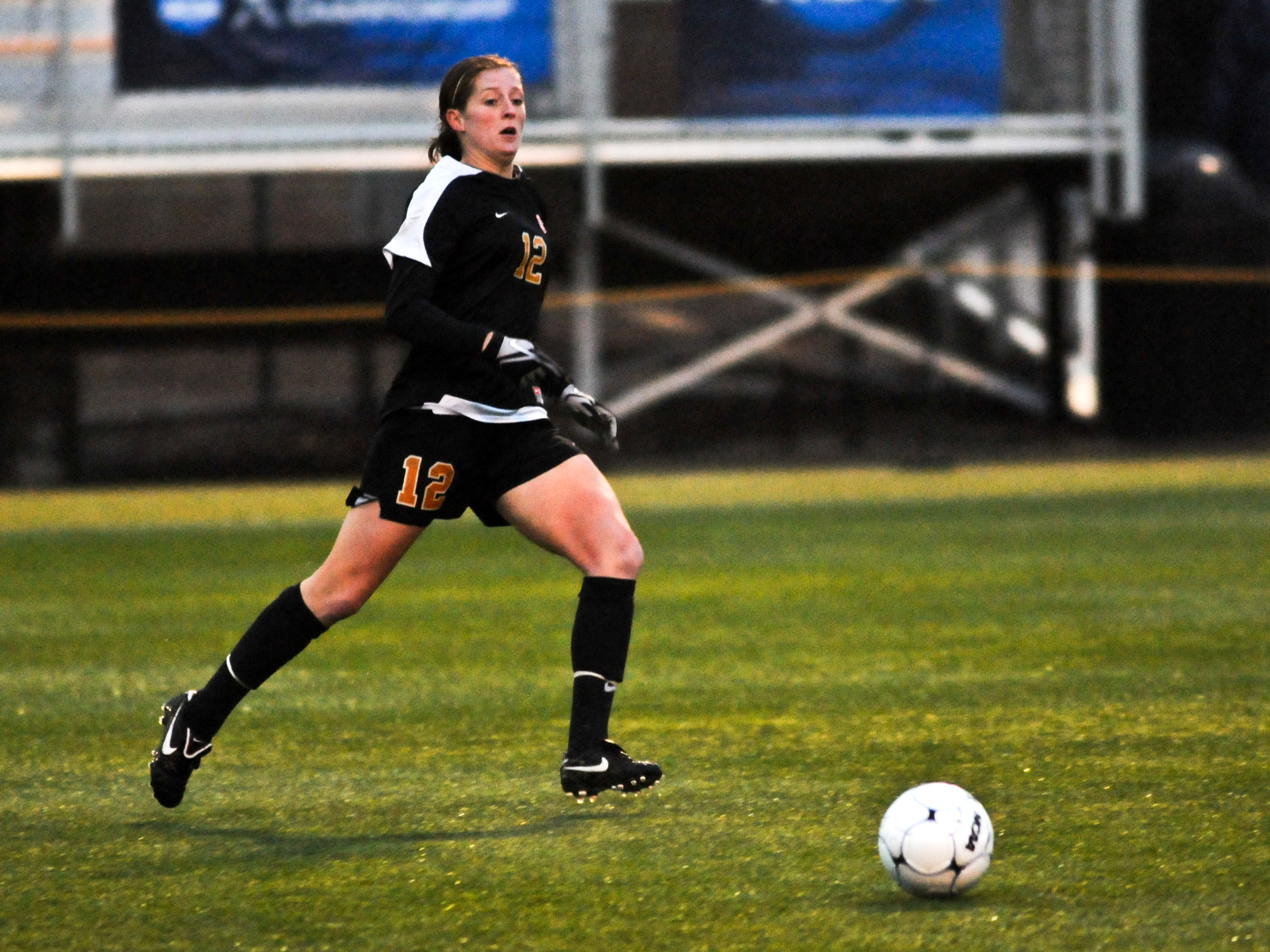 Oregon State Beavers forward Chelsea Buckland dribbles downfield for a strike on goal against Memphis.